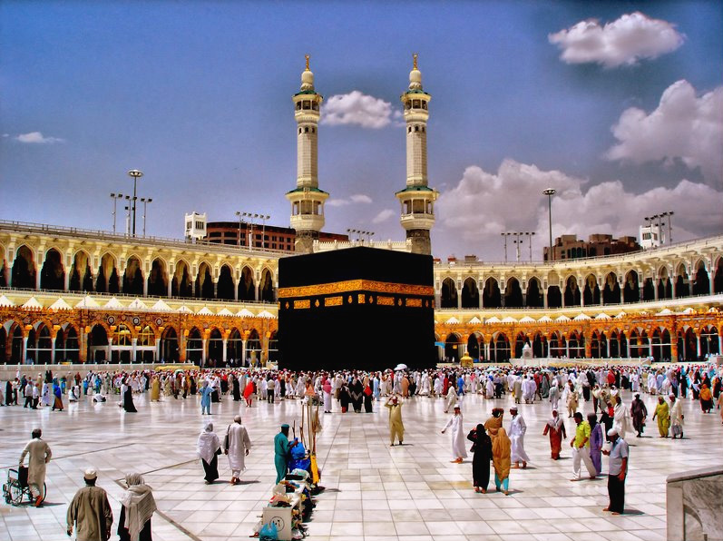 Photo centred on the Kaaba in Mecca.